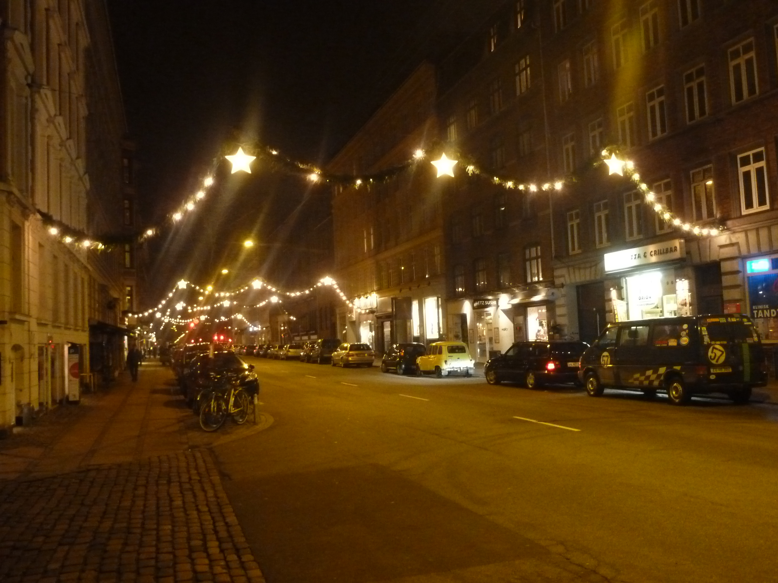 The street Nordre Frihavnsgade in Copenhagen decorated for Christmas.